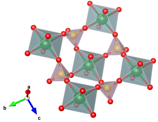 Uranyl octahedra and phosphate tetrahedra linked via shared corners in the mineral uranospathite